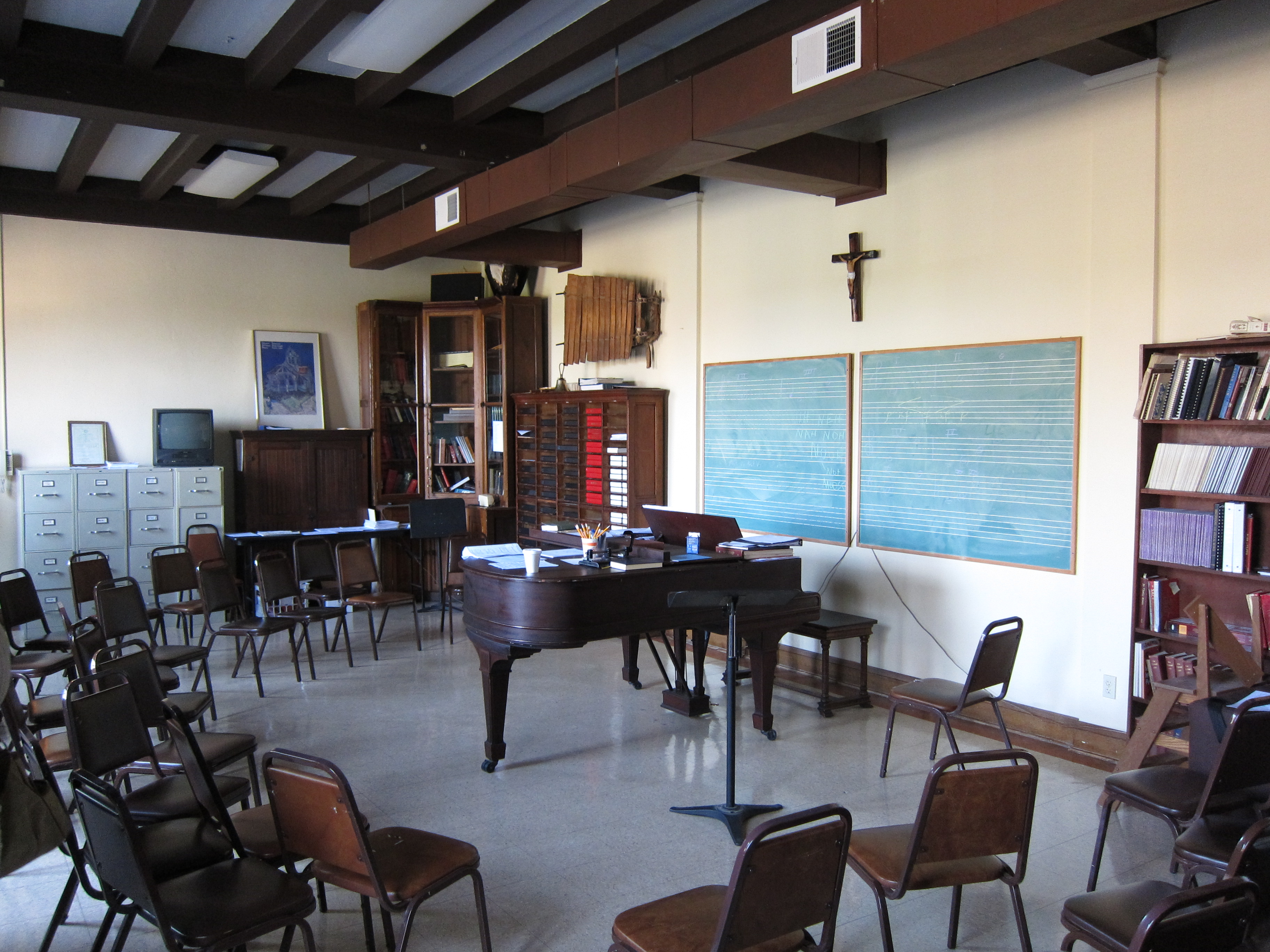 Pontifical College Josephinum (Columbus, Ohio) - interior, music room